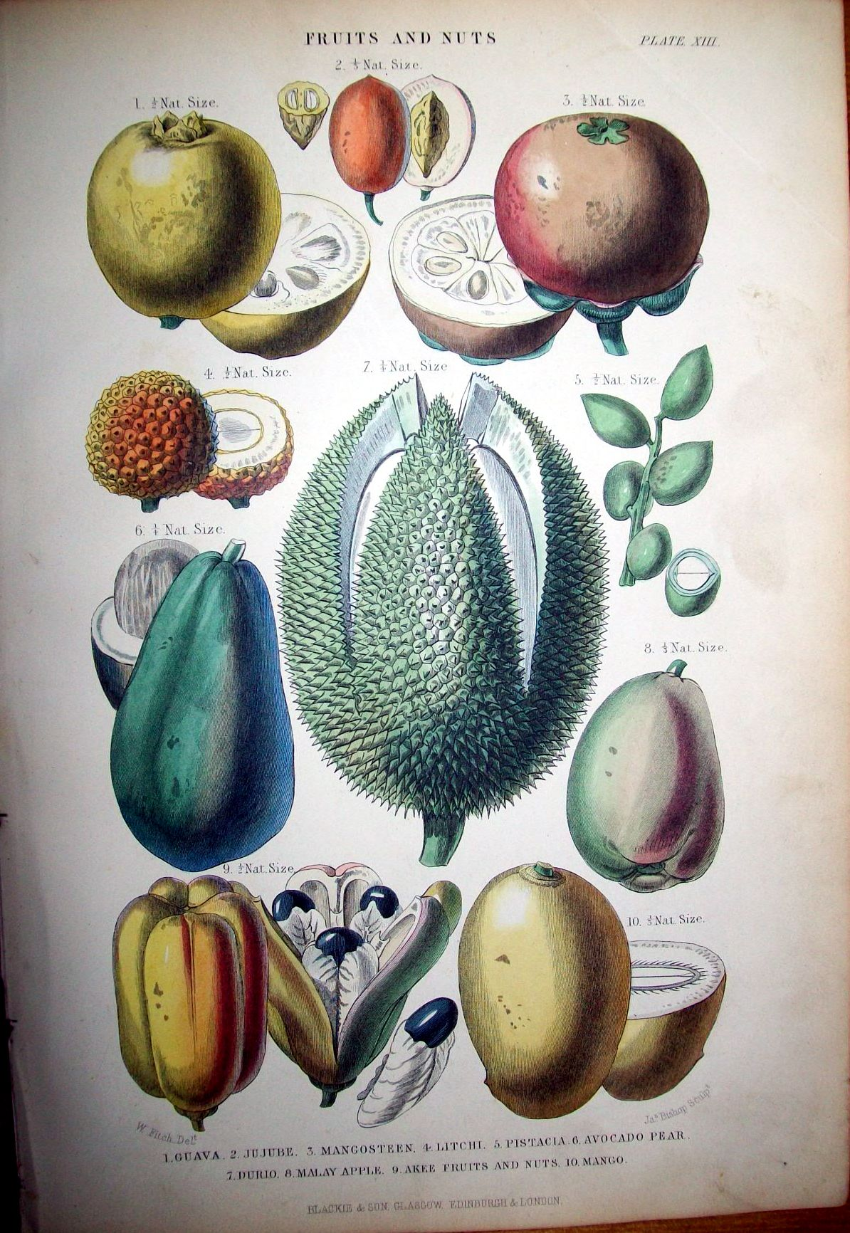 Guava, Mango, Mangosteen, Lychee, Pistachio, Avocado Pear, Durian, from "A History of the Vegetable Kingdom" by William Rhind (published in London by Blackie & Son, 1874). Walter Hood Fitch supplied most of the illustrations for this work.